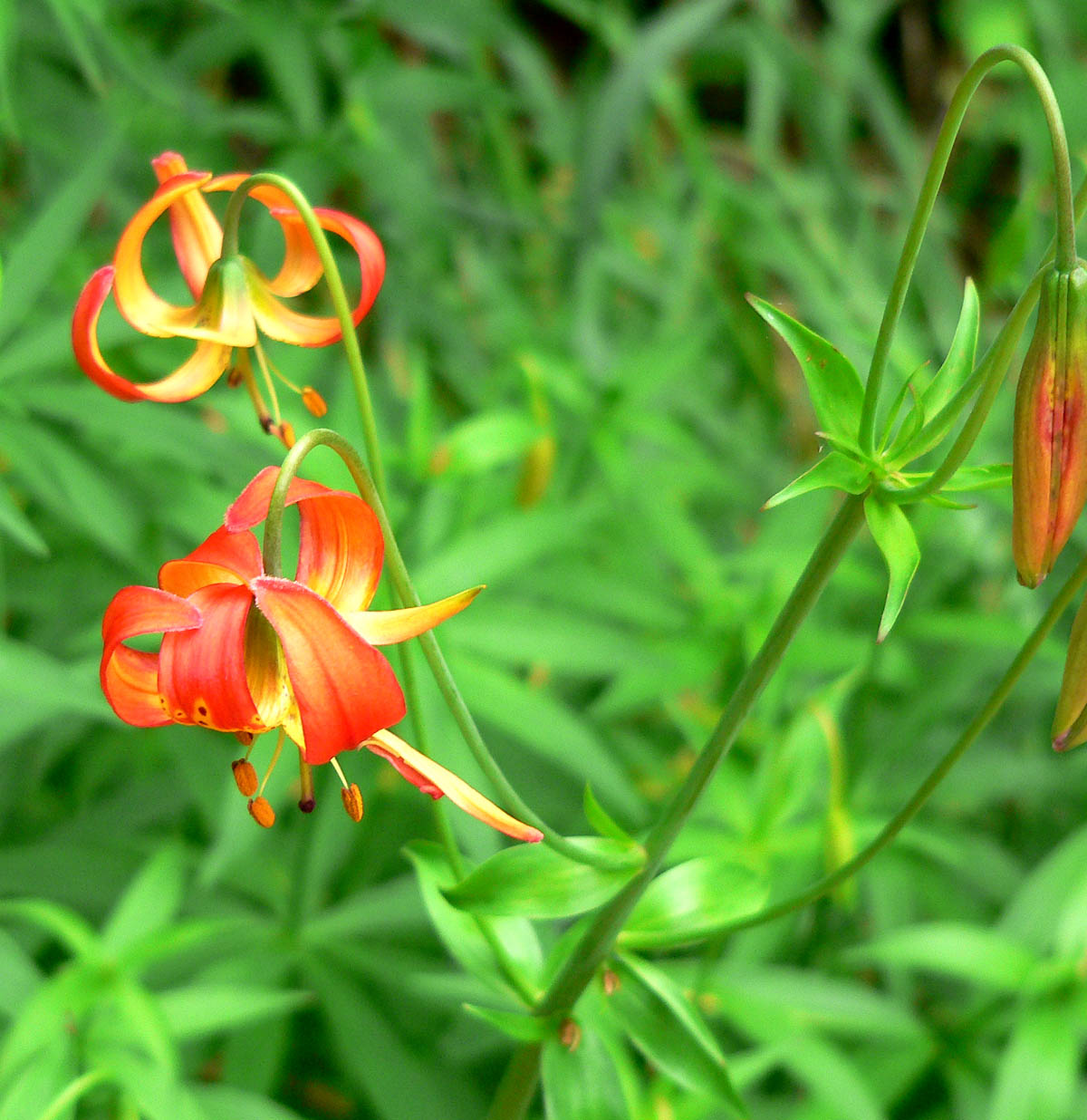 Photo of Lilium pardalinum ssp. pitkinense at the University of California Botanical Garden